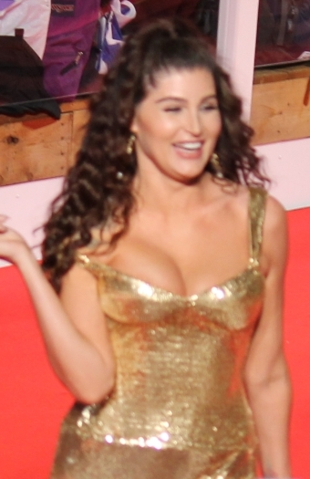 from Trace Lysette wearing a long golden gown, metallic looking gown at the 2019 Toronto International Film Festival.